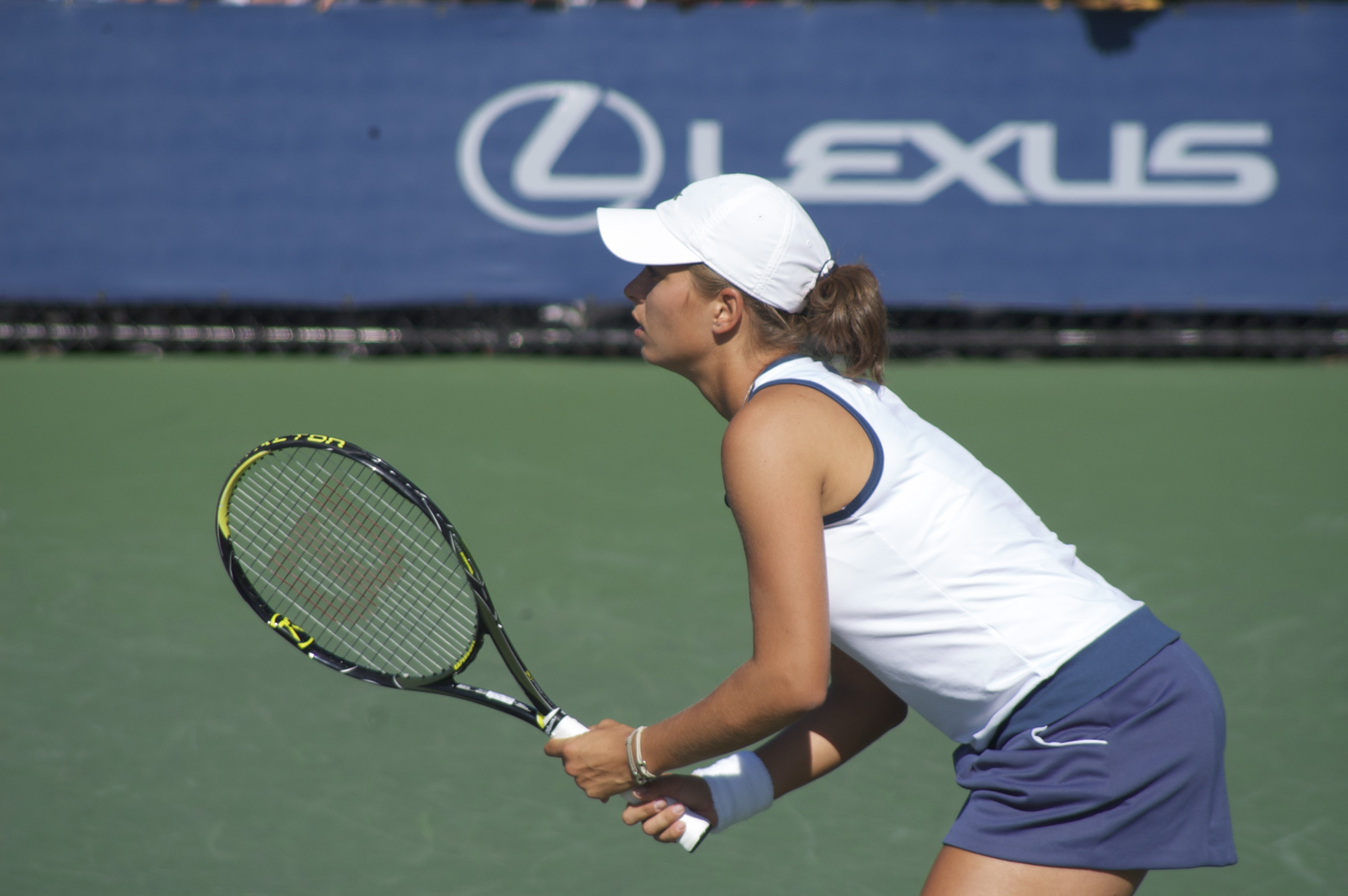 Petra Cetkovská at the 2008 US Open